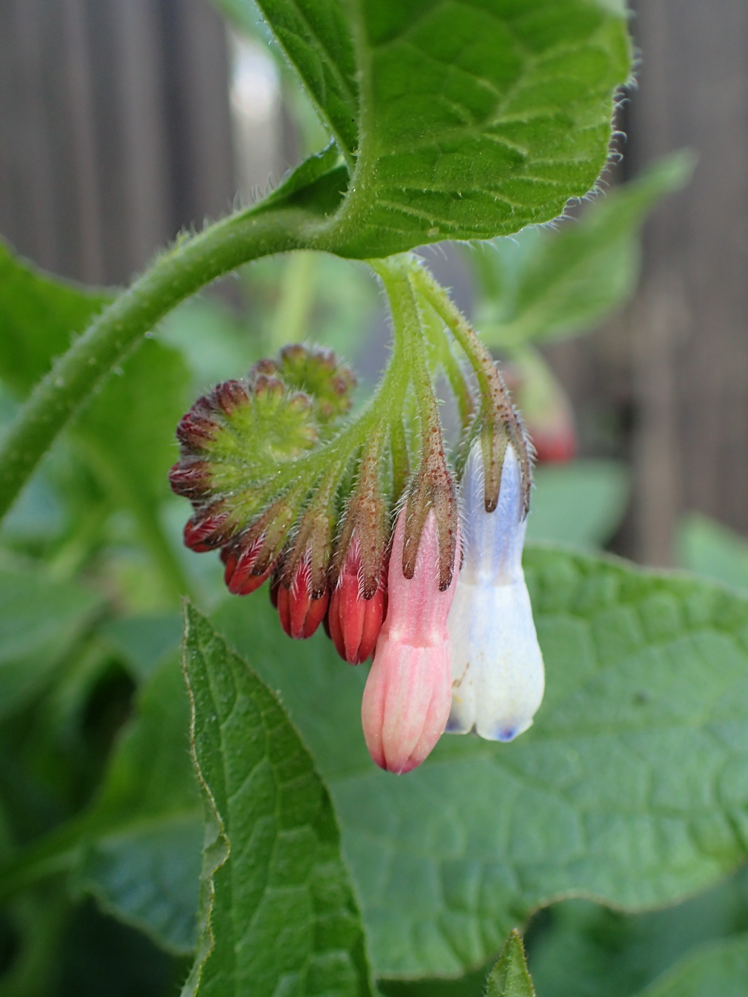 Symphytum × uplandicum in Warsaw University Botanical Garden